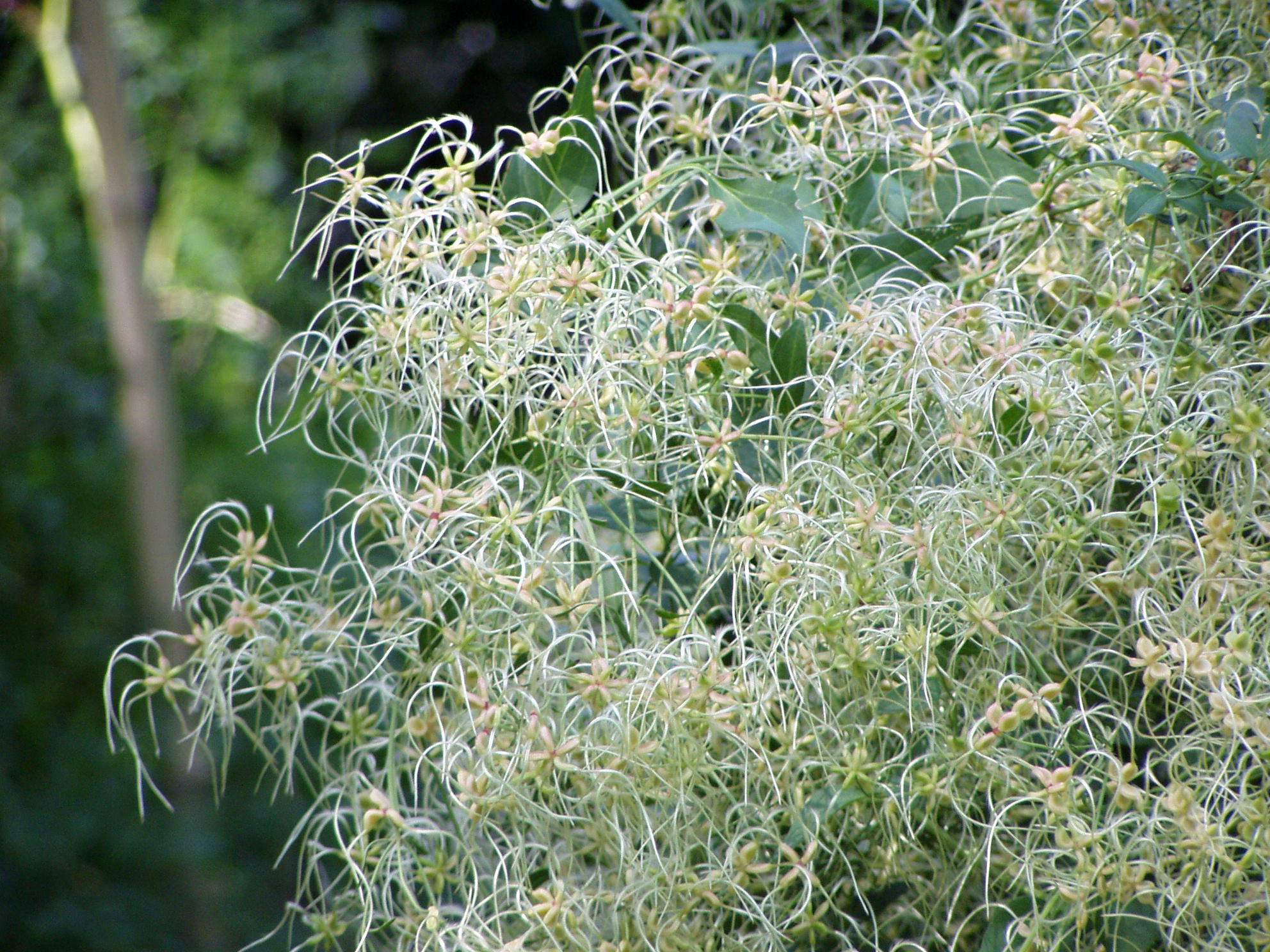 Fragrant Virgin's Bower. Native in Southern Portugal. Photographed outside its natural range, at the Lisbon Botanic Garden, Portugal.